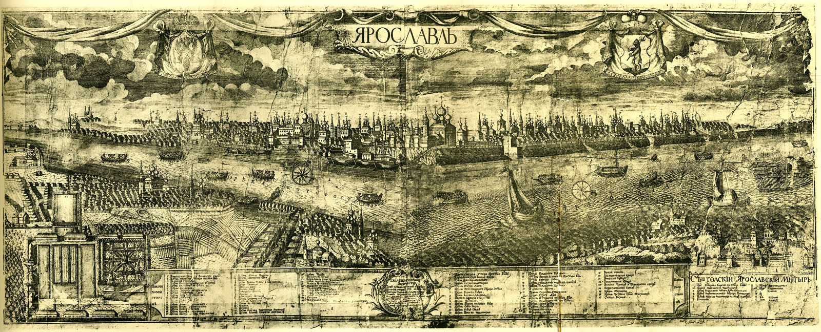 View of Yaroslavl in 1731